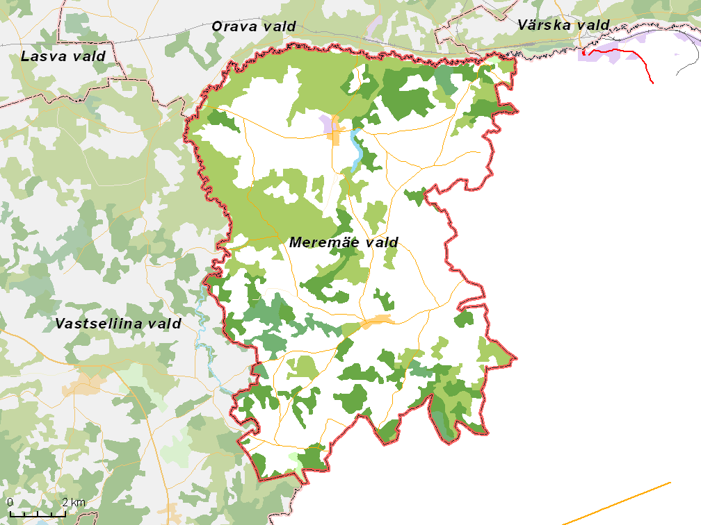 Map of municipality in Estonia